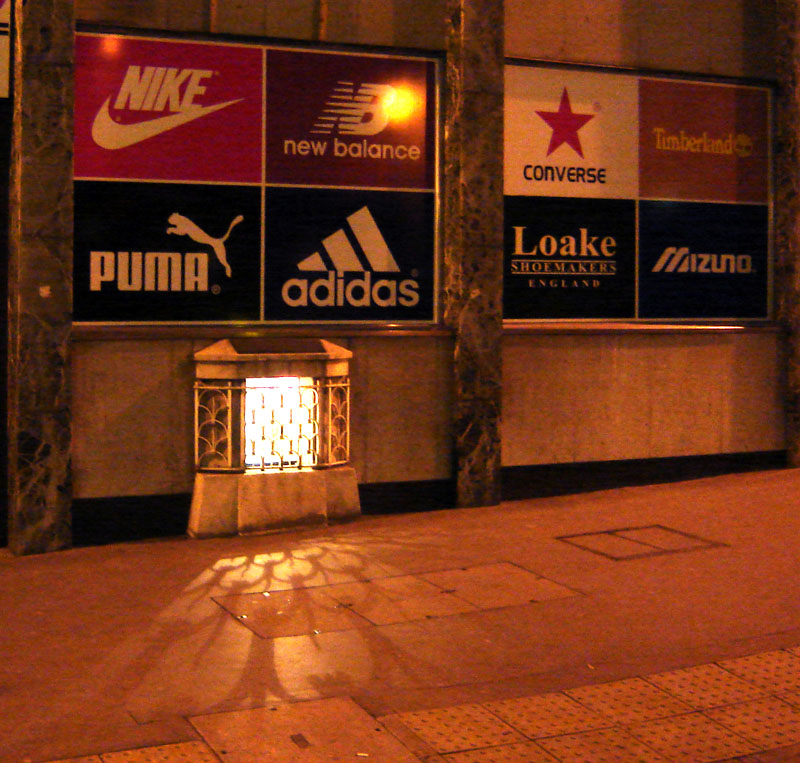 The London Stone, Cannon Street, City of London.